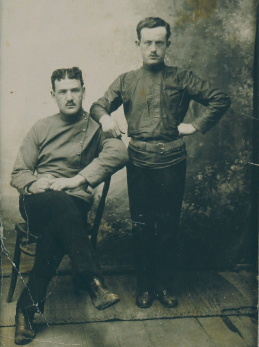 Mark Reisen (on the left) — People’s artist of the USSR.